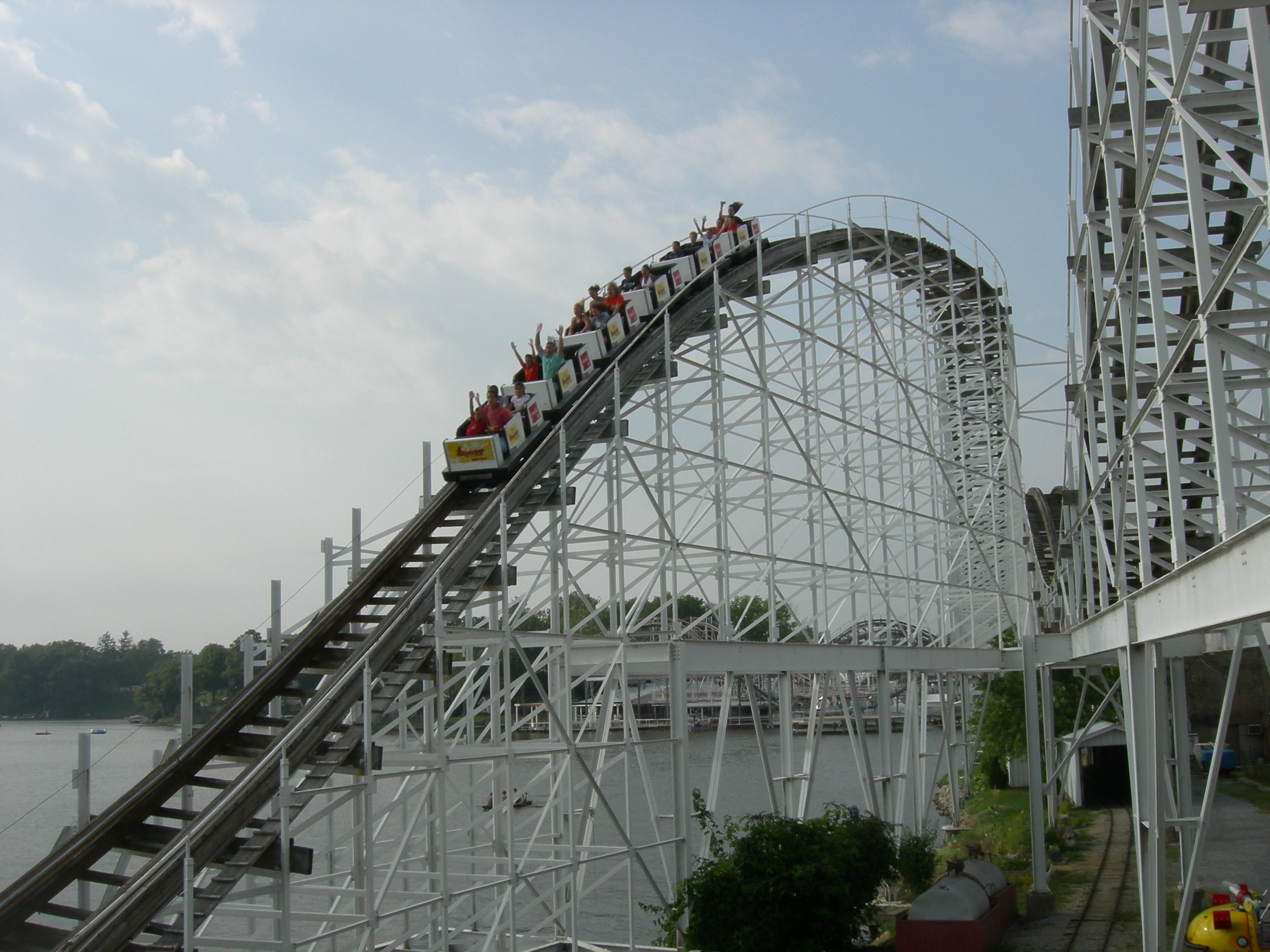 A train full of happy riders on Hoosier Hurricane at Indiana Beach. Pic taken by Carl F.